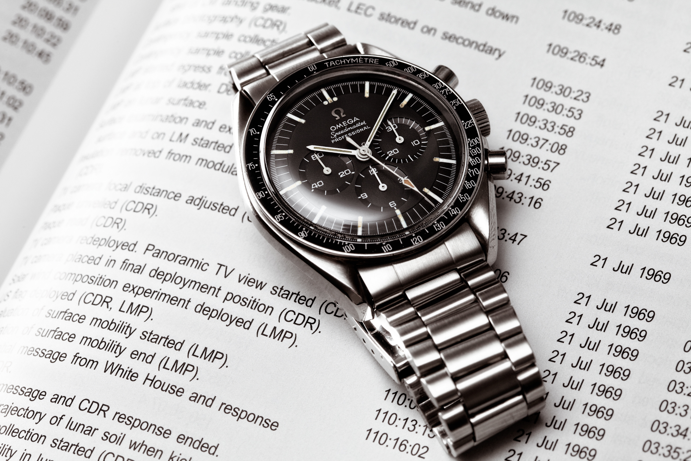 Omega ref. 145.012-67 Speedmaster cal. 321, as worn on the moon by Apollo astronauts. With 1171/633 bracelet.